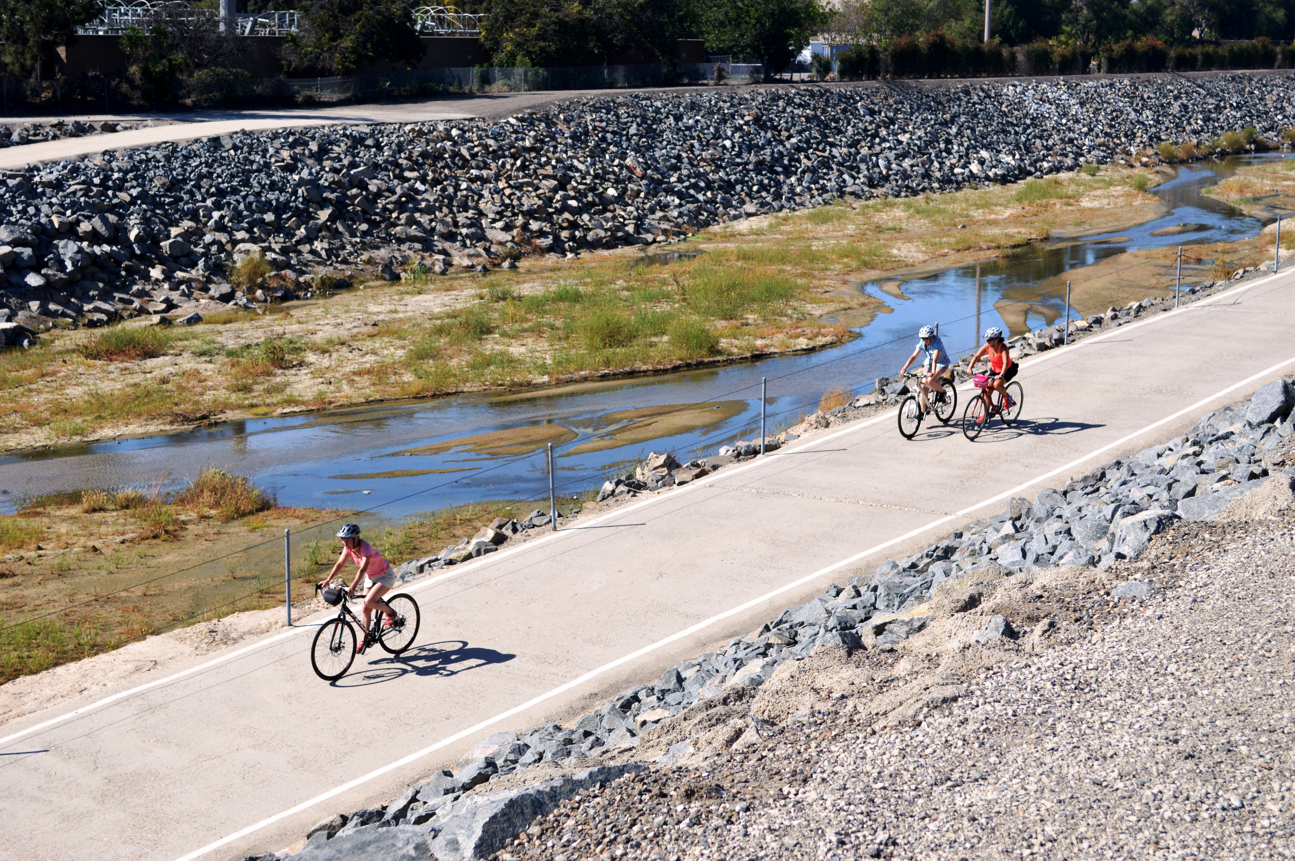 San Diego Creek Trail by the Irvine Civic Center, with cyclists about to go under the Alton Parkway bridge toward Interstate 405.